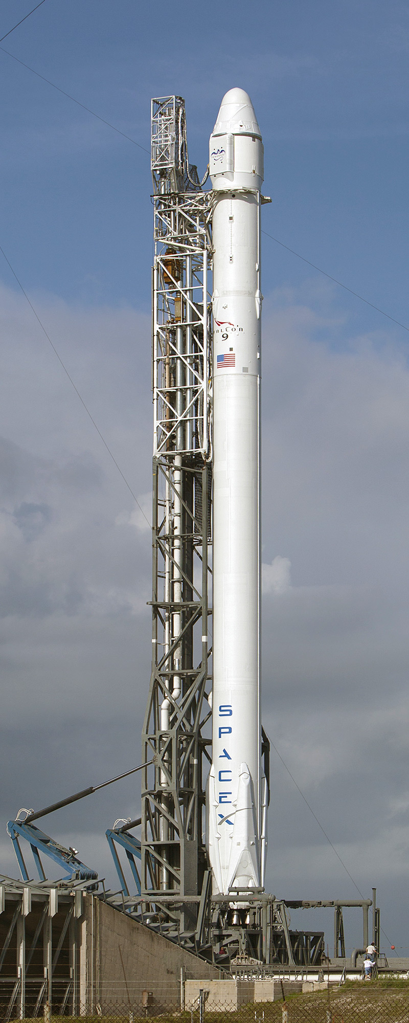 SpaceX Falcon 9 v1.1 with uncrewed Dragon prepared for CRS-3.